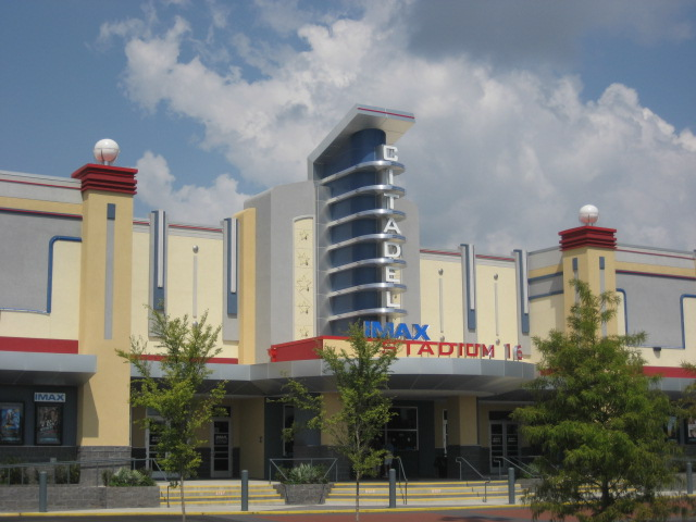 Movie theater at the Citadel Mall in West Ashley